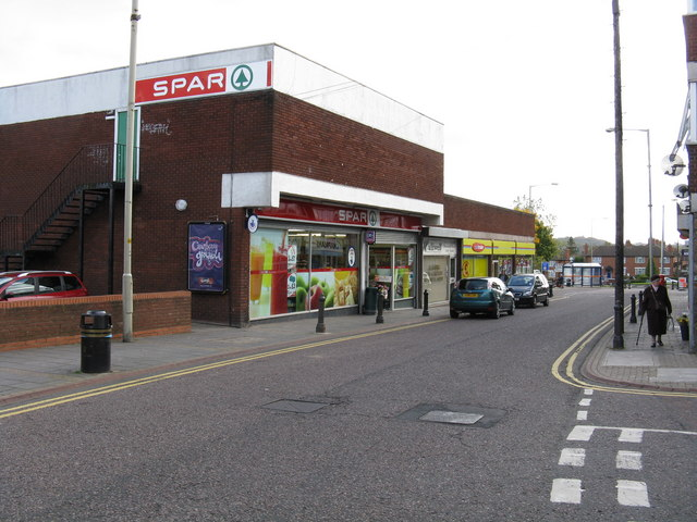 Spar Supermarket, Castle Street, Coseley